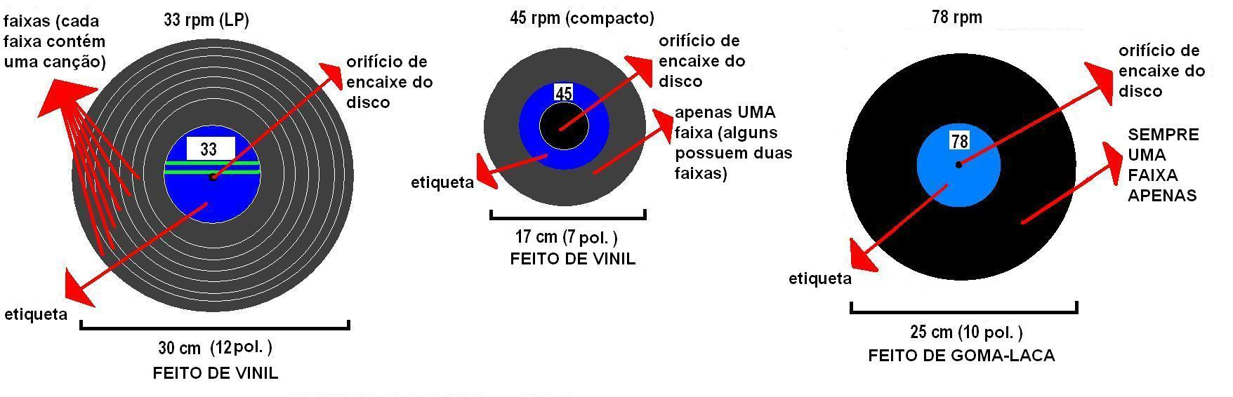 Diagram with differences between the three main formats of phonograph records.